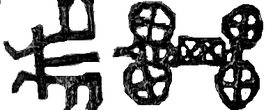 Chariot with horses from the 8th Century B.C. after an funerary urn discovered in a tumulus at Les Danges, commune of Sublaines, French departement of Indre-et-Loire, now in the museum of Saint-Germain-en-Laye.